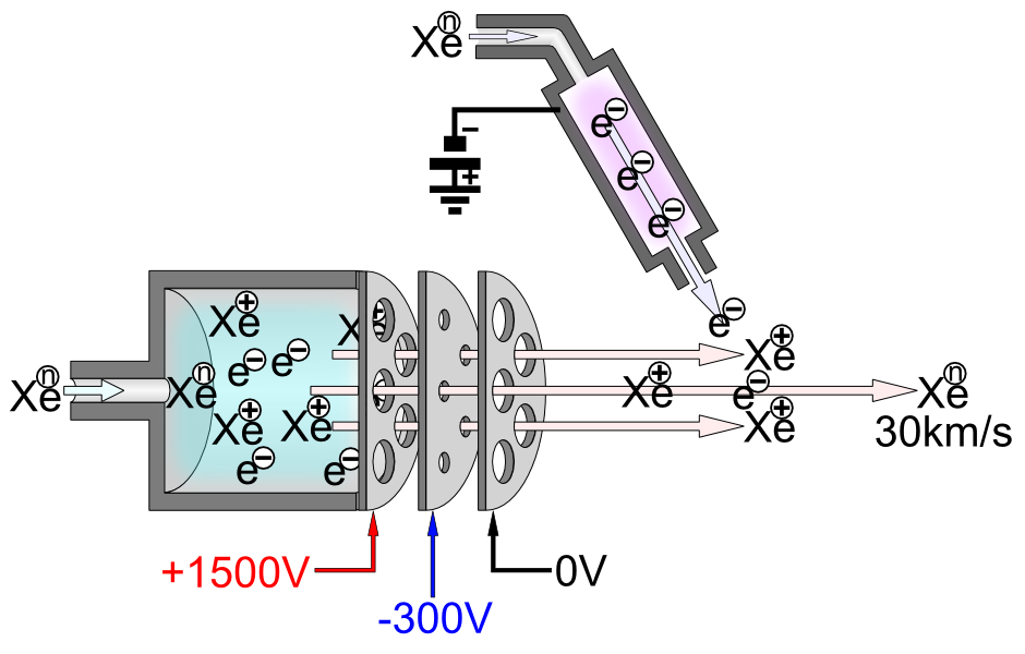 schematic of ion engine mu10 for Hayabusa 3